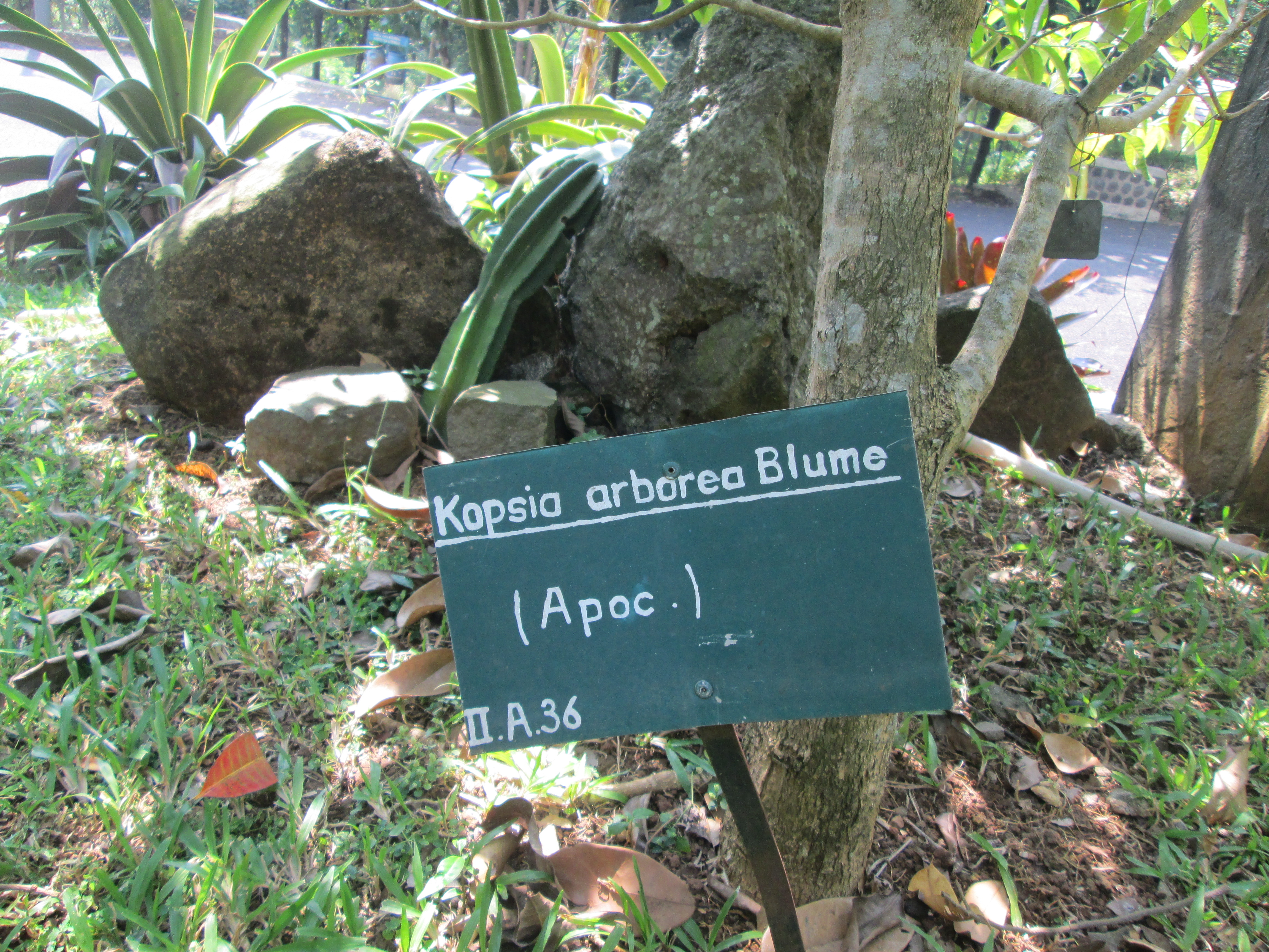 Kopsia arborea Blume sign in Kuningan Botanical Garden